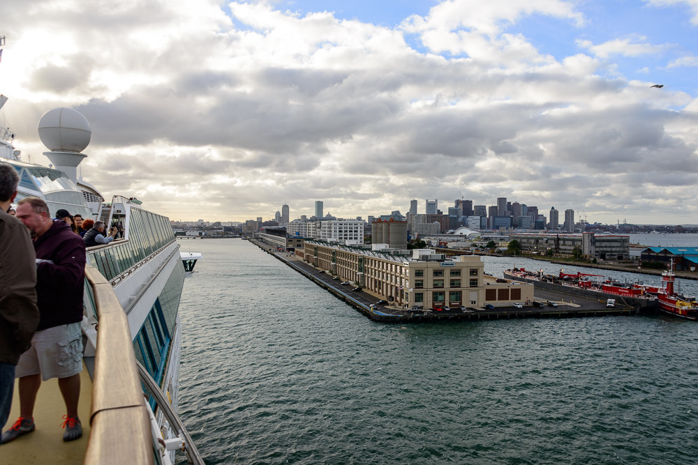 Black Falcon Pier and the Boston skyline viewed from a departing cruise ship in October 2015